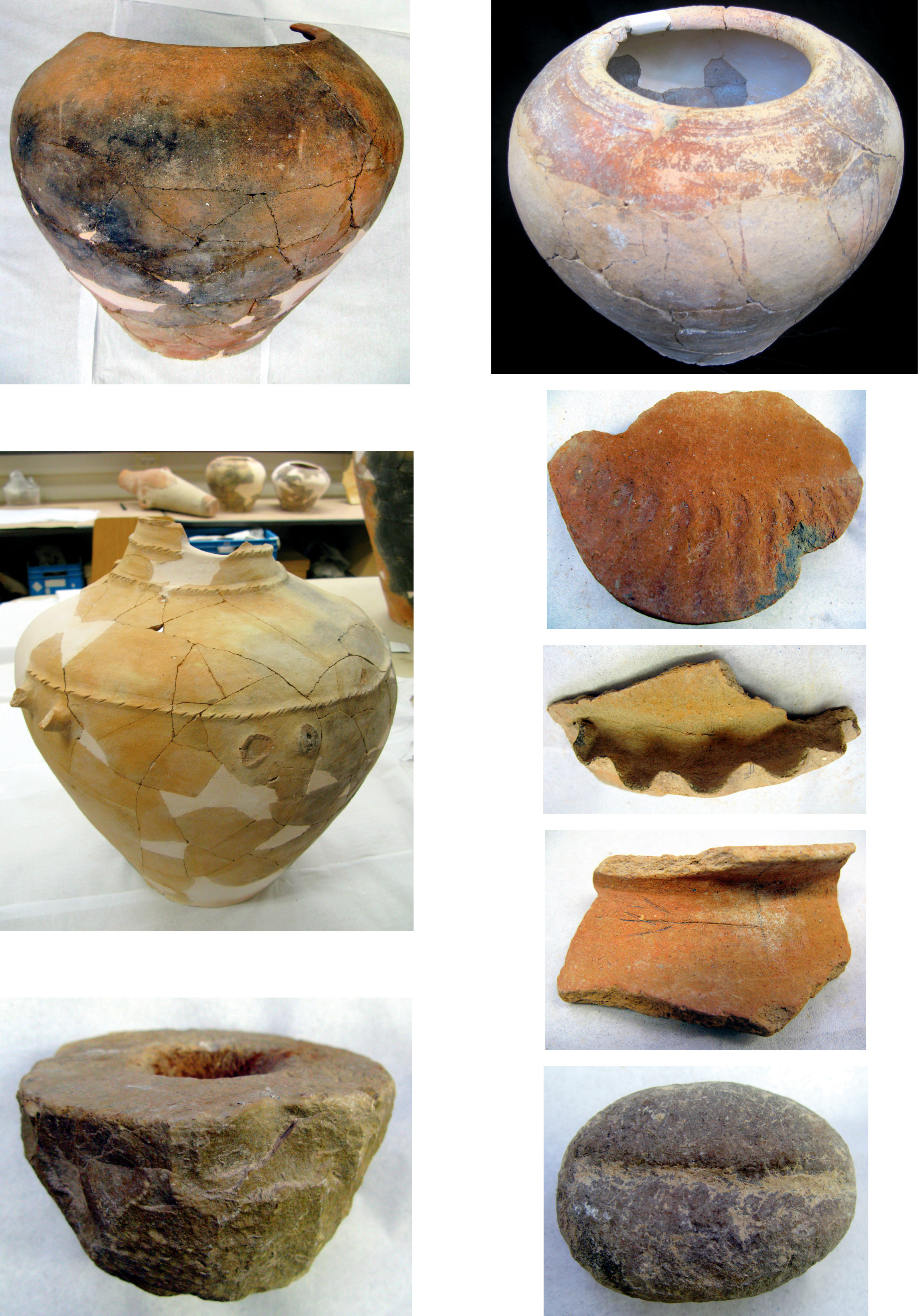 Sheikh Diab 2- Early Bronze Age 1 Archaeological site in Jordan Valley שייח' דיאב 2 - אתר ארכאולוגי מתקופת הברונזה הקדומה 1 - האתר שוכן בבקעת הירדן ליד היישוב פצאל This work is free and may be used by anyone for any purpose. If you wish to use this content, you do not need to request permission as long as you follow any licensing requirements mentioned on this page.